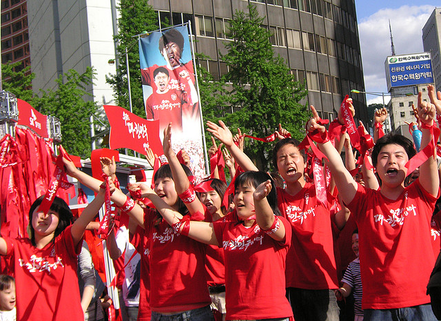 They are cheering Korean soccer team, with red T-shirts.